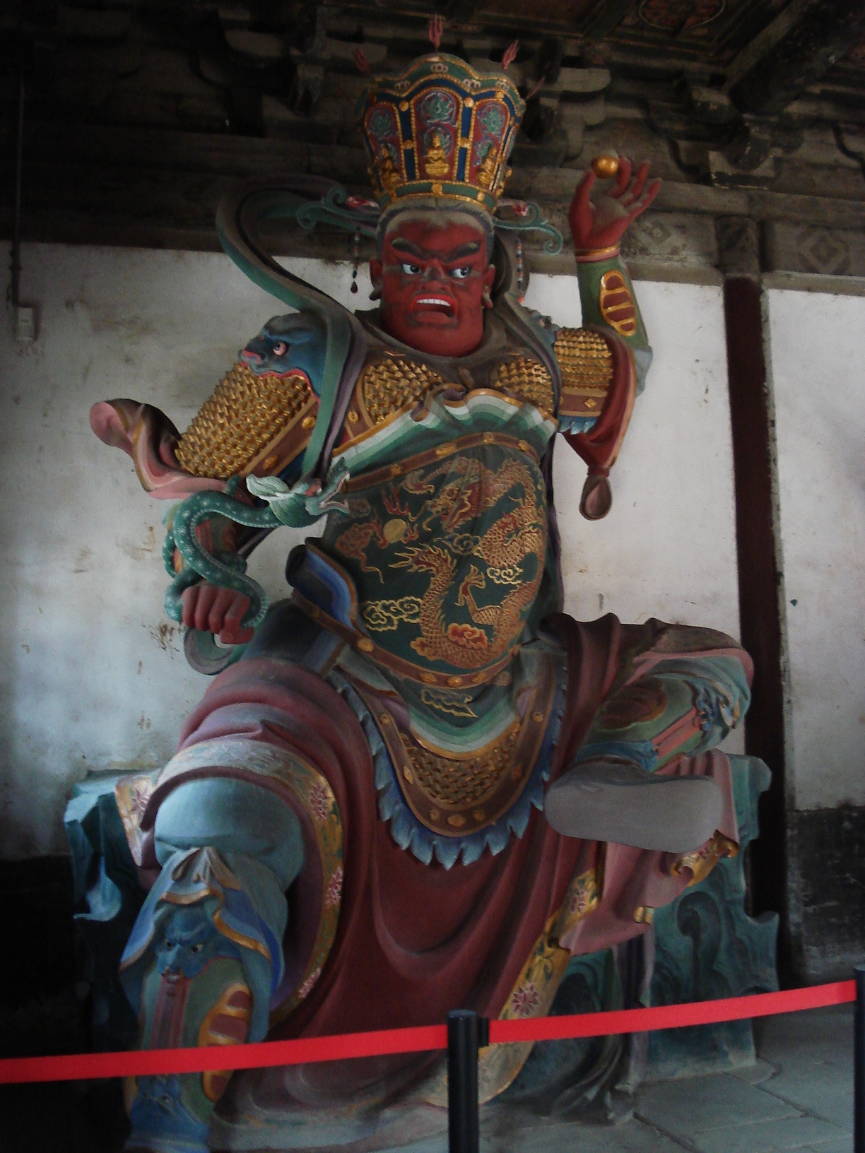 Beijing Wofo Temple